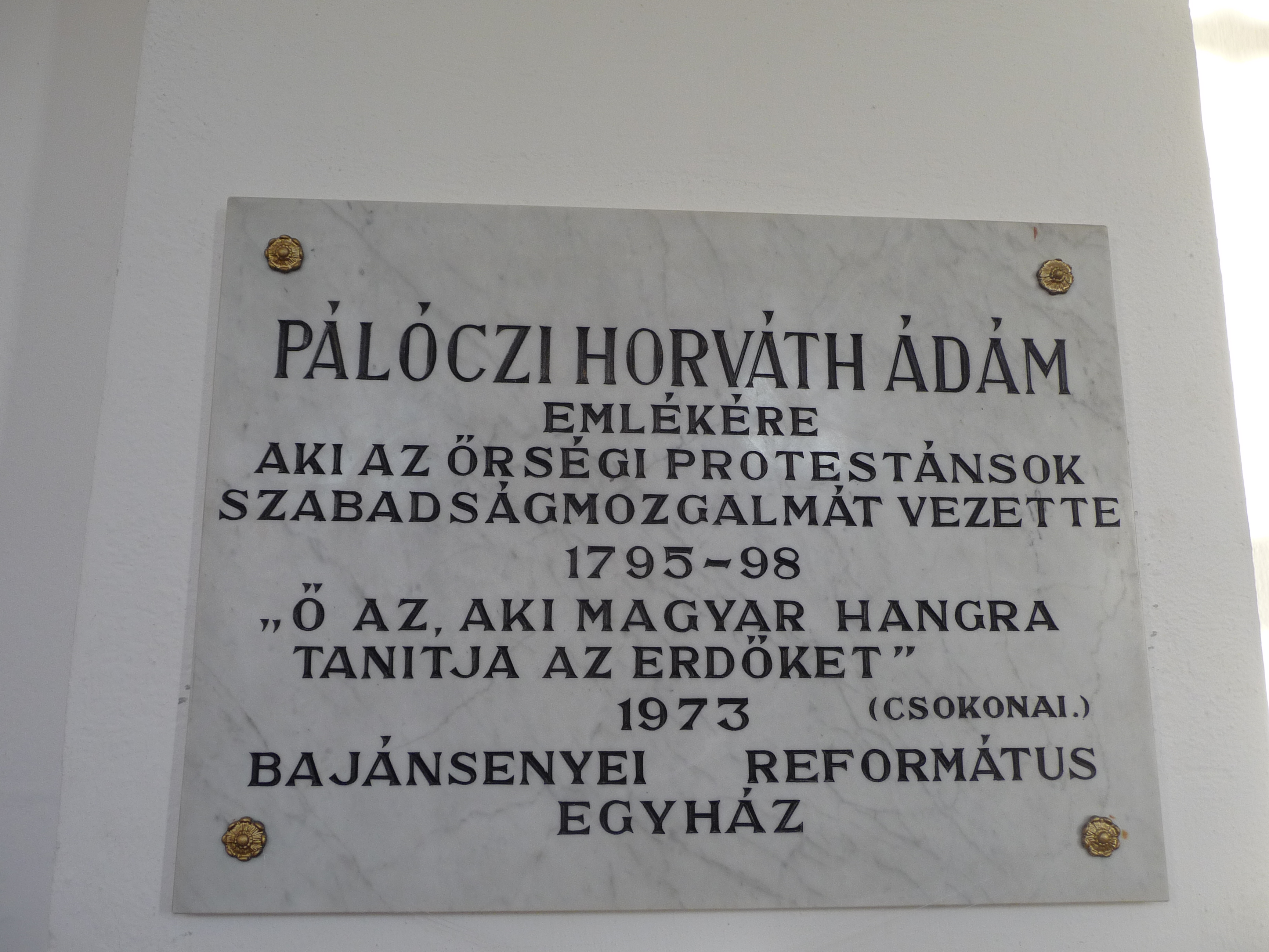 Commemorative plaque of Ádám Pálóczi Horváth in Bajánsenye, Hungary